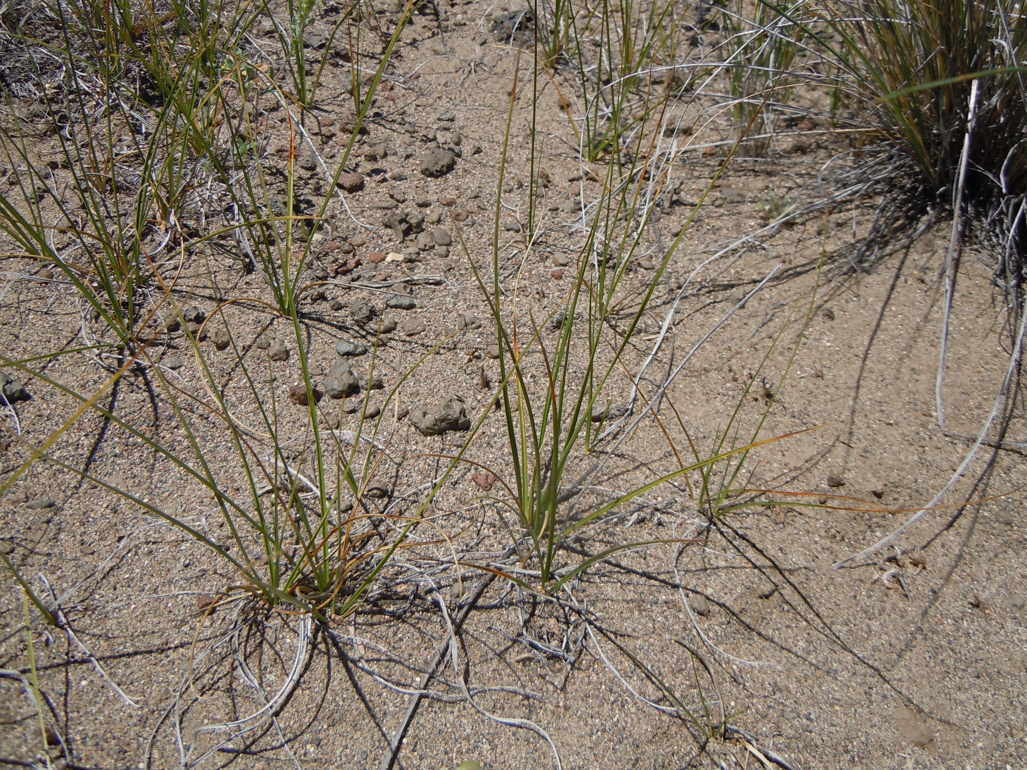 This finely and few-leaved sedge has much narrower and bisexual spikes that distinguish it from the more common but similar Carex douglasii.